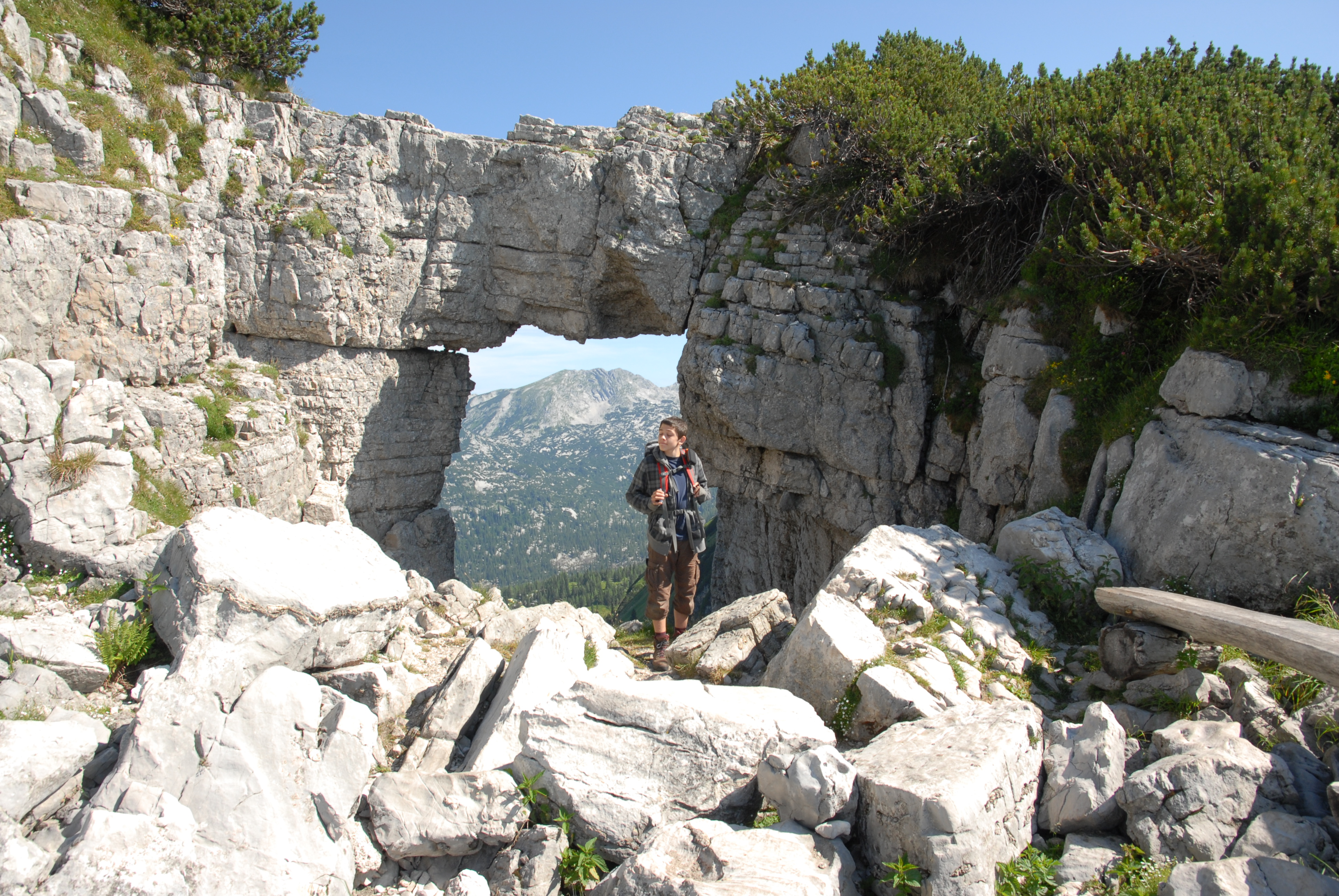 Loser window with Schönberg in the background